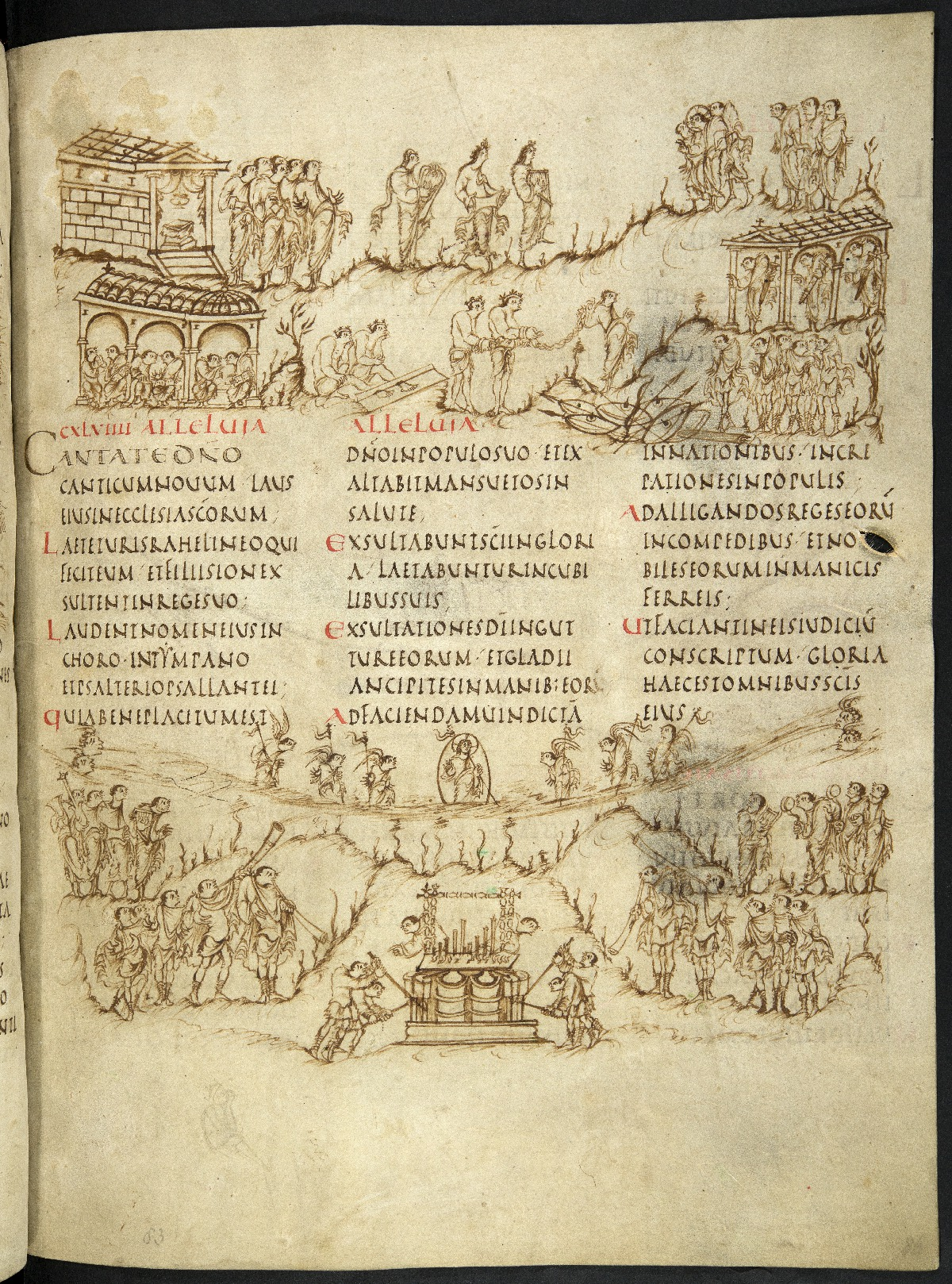 Utrecht Psalter, Utrecht University Library